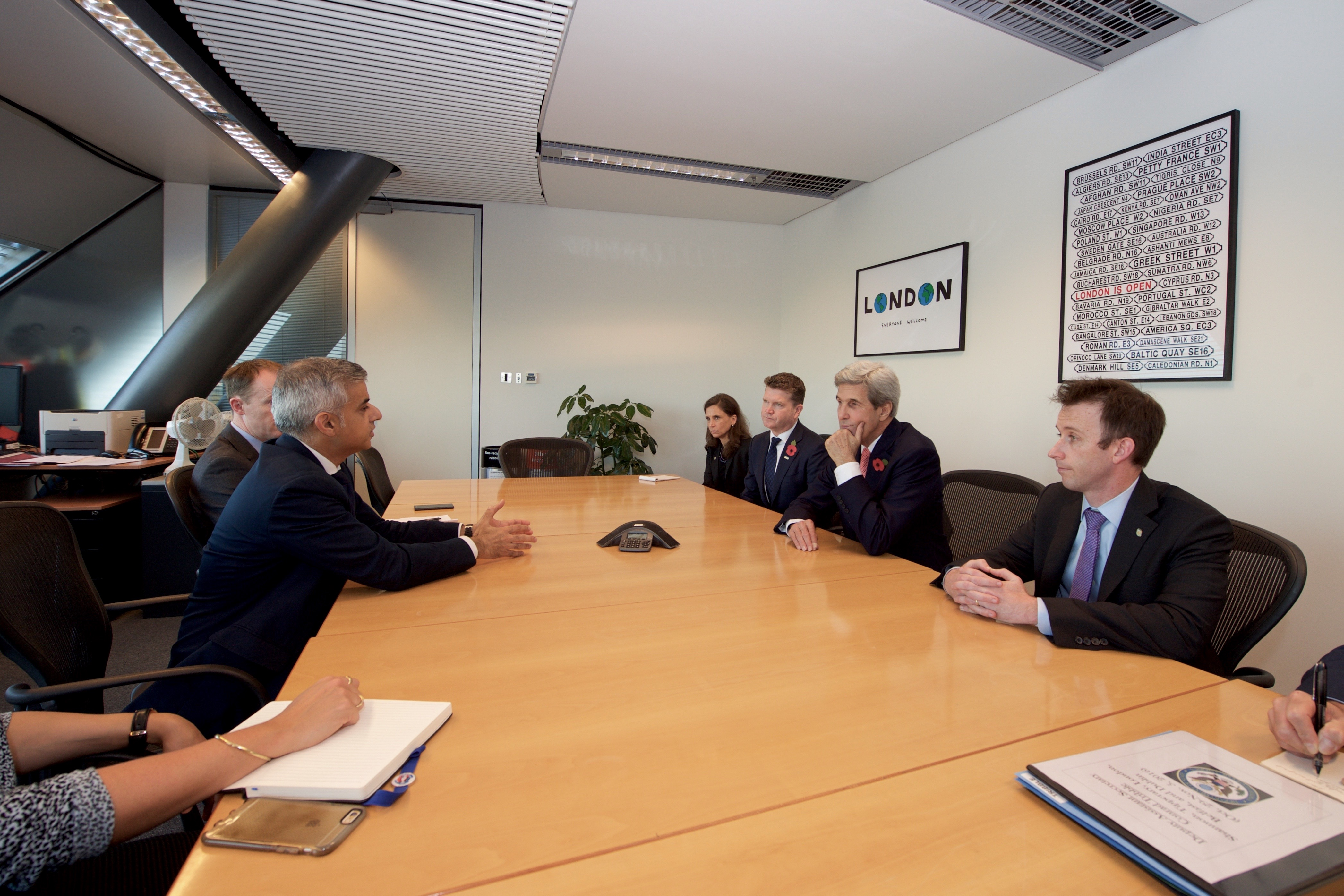 U.S. Secretary of State John Kerry sits across from London Mayor Sadiq Khan before they held a question-and-answer session about foreign affairs with young Londoners, British residents, and American visitors on October 31, 2016, at London City Hall in London, U.K. [State Department photo/ Public Domain]